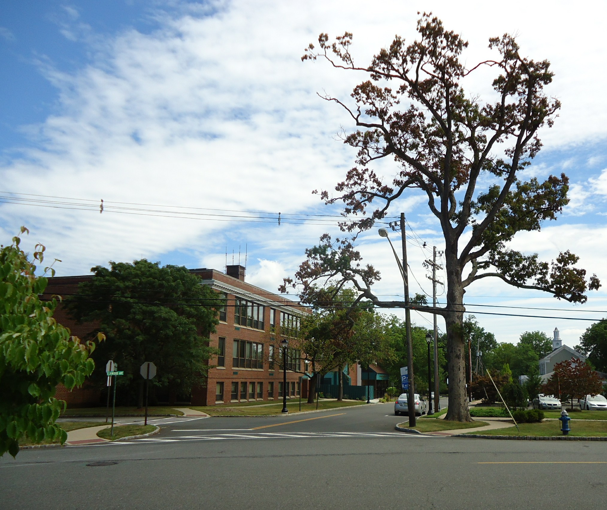 Municipal building and streets. New Providence, New Jersey, is a borough in Union County and about 40 minutes west of Manhattan.